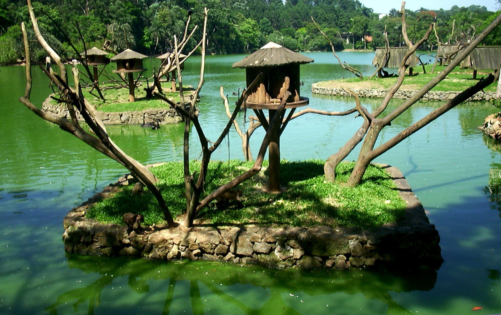 Monkey's Islands at the São Paulo Zoo. Photo: Renato M.E. Sabbatini, December 2004.